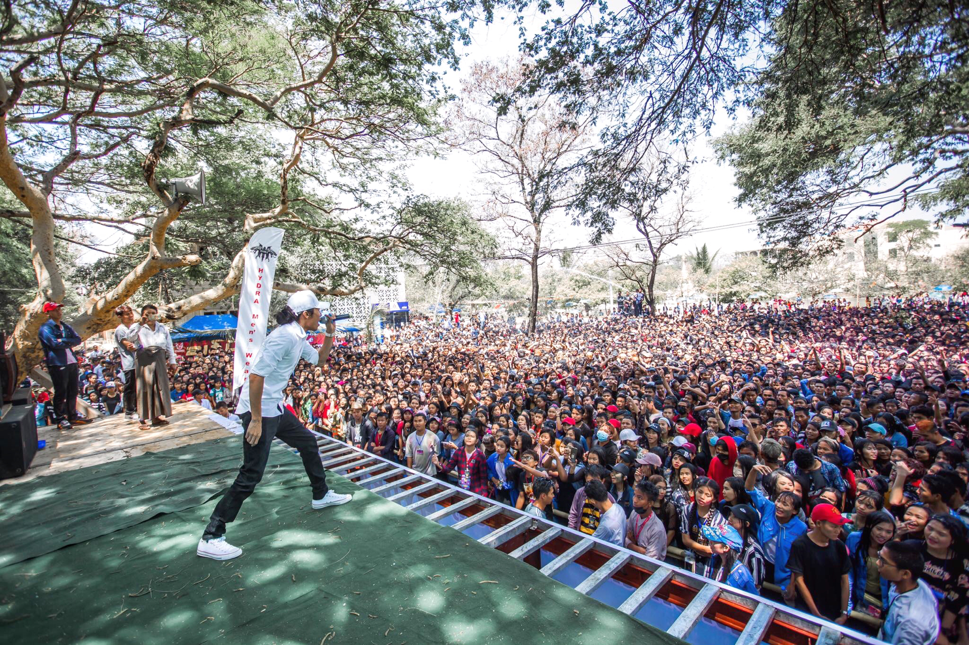 Y-Zet is a Burmese hip hop singer.